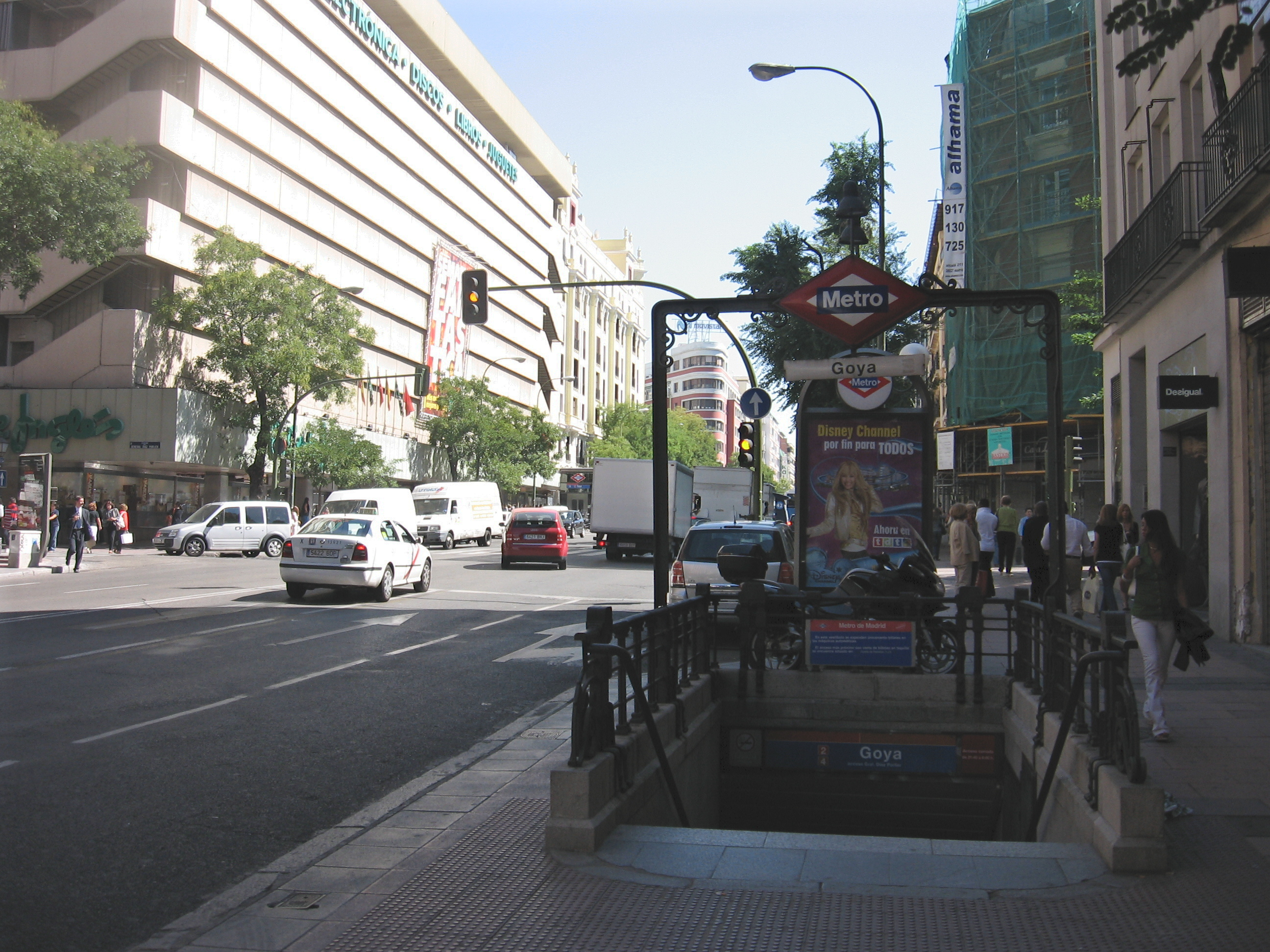 Goya